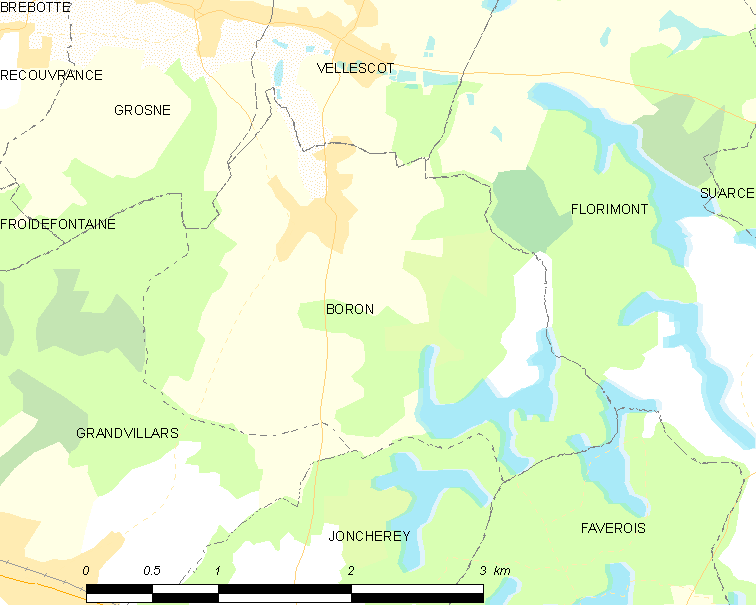 Map of French municipality Boron